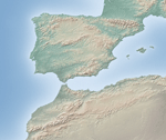 Example of a free public-domain map created by Natural Earth